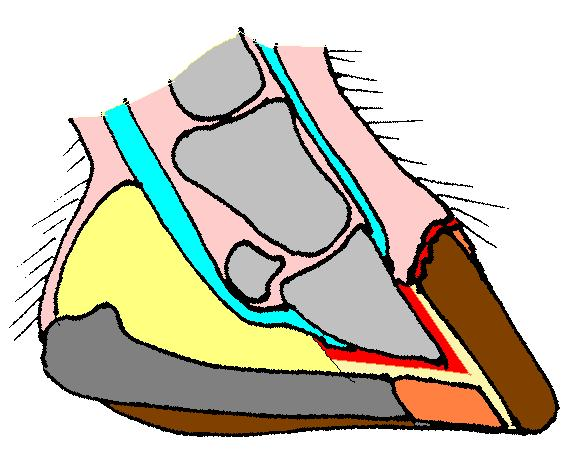 Sagittal section of a feral horse hoof (simplified). Pink: skin and soft tissues Brown: walls Light gray: bones (navicular bone and coffin bone) Red: walls and sole living chorium Dark gray: frog Orange: toe sole Yellow: digital cushion Blue: tendons (extensor, front; deep palmar flexor, back)